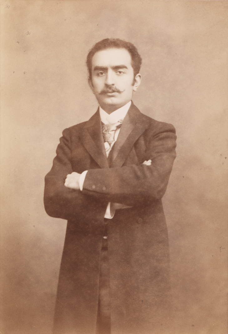 Calouste Gulbenkian in 1892